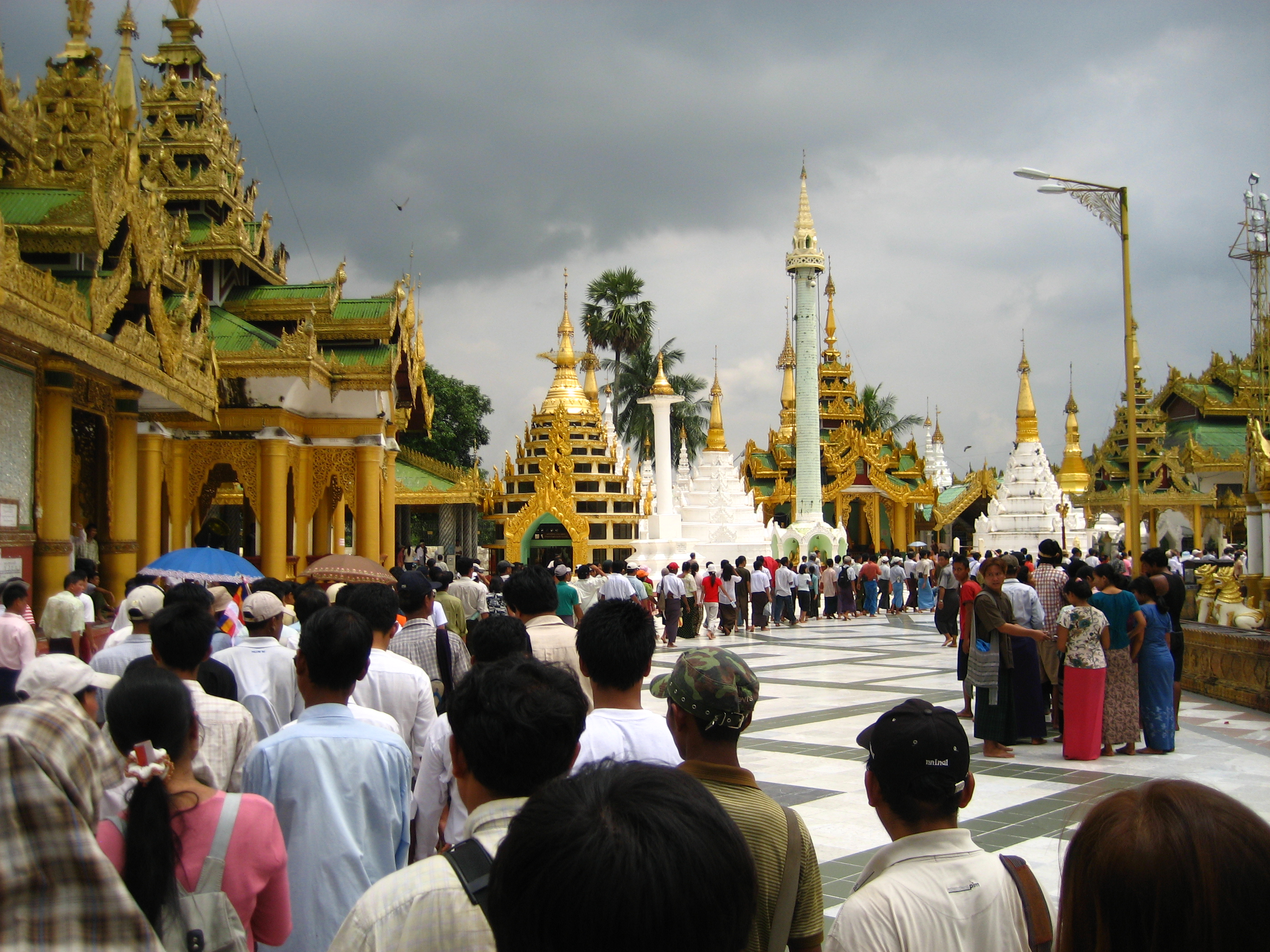 Monks Protesting in Burma